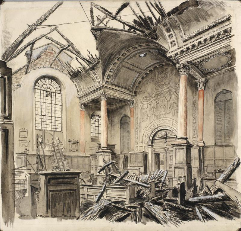 Inside a bombed church with the fallen roof timbers covering the pews and pulpit